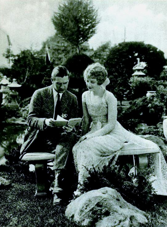 Director Rex Ingram and his wife actress Alice Terry, page 11 of the March 1922 Photoplay.